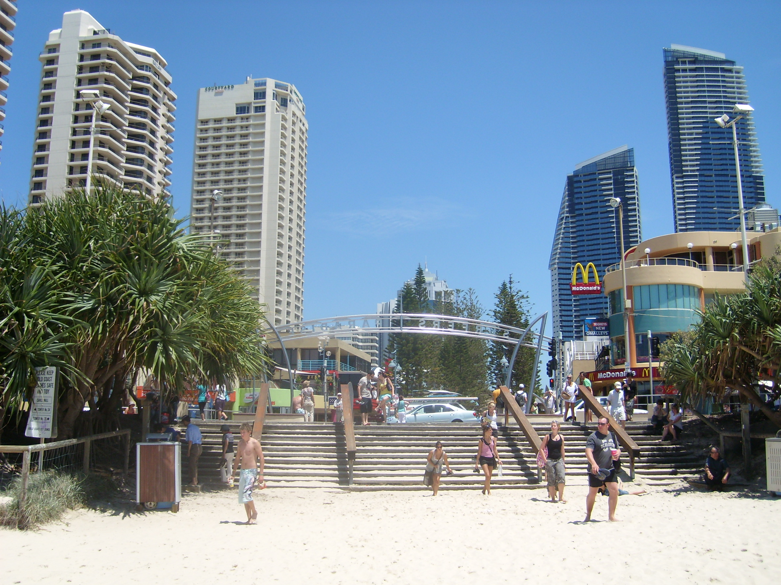 Surfer Paradise